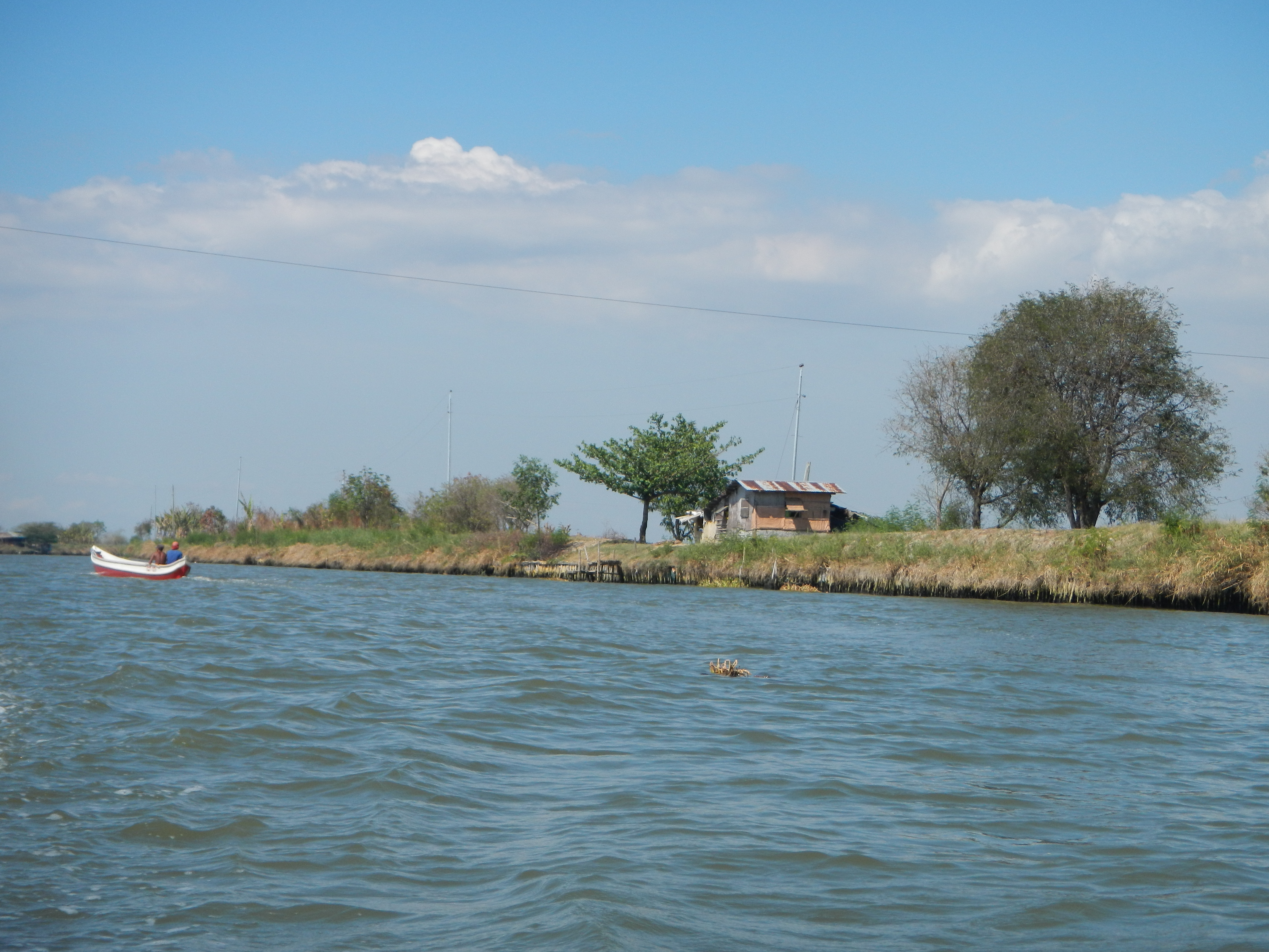 The beautiful island in the sun surrounded by Pampanga Creek to River and Fish Ponds - Chapel and Barangay Hall, Schools, stage and wharf of Barangay San Esteban,Macabebe, Pampanga (from Barangay Santa Cruz, Masantol, Pampanga).